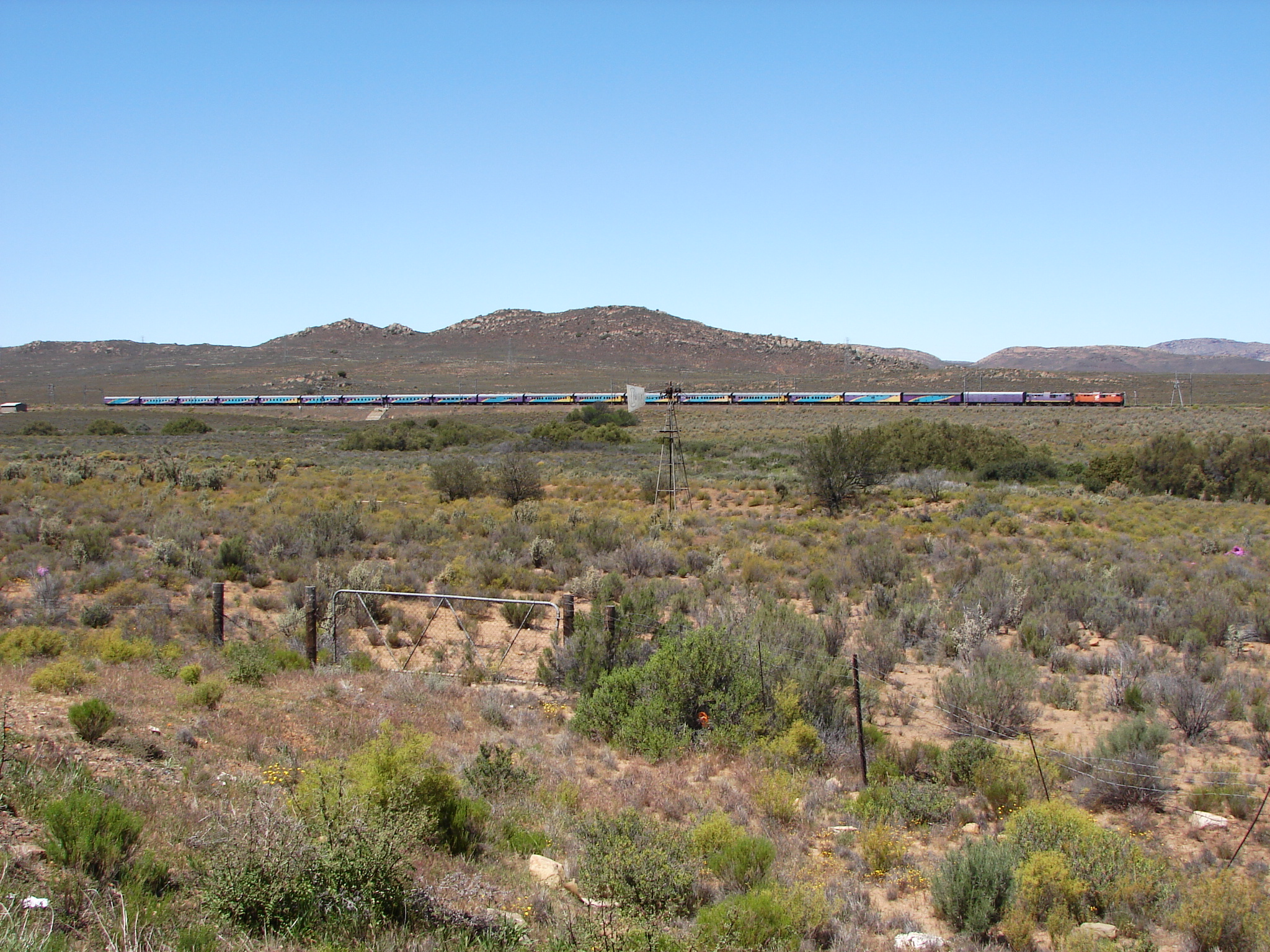 A westbound Shosholoza Meyl mainline passenger train at Quarry loop near Touwsrivier, led by Spoornet orange Class 6E1 Series 4 no. E1474 and PRASA purple Class 6E1 Series 4 no. E1464 Location: Quarry Siding, Touwsrivier, Western Cape